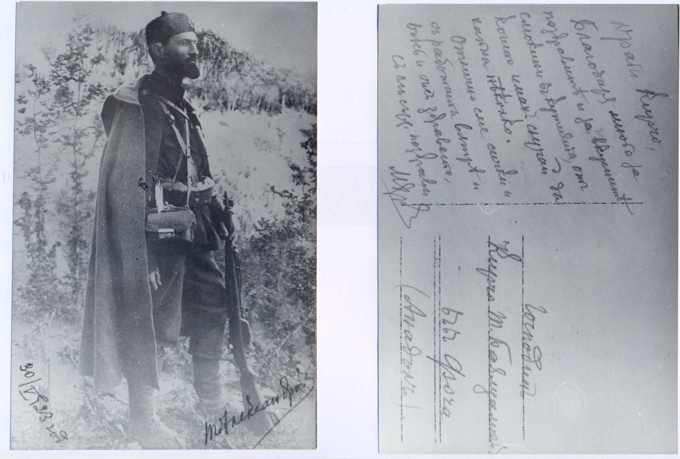 Portrait of Todor Alexandrov.